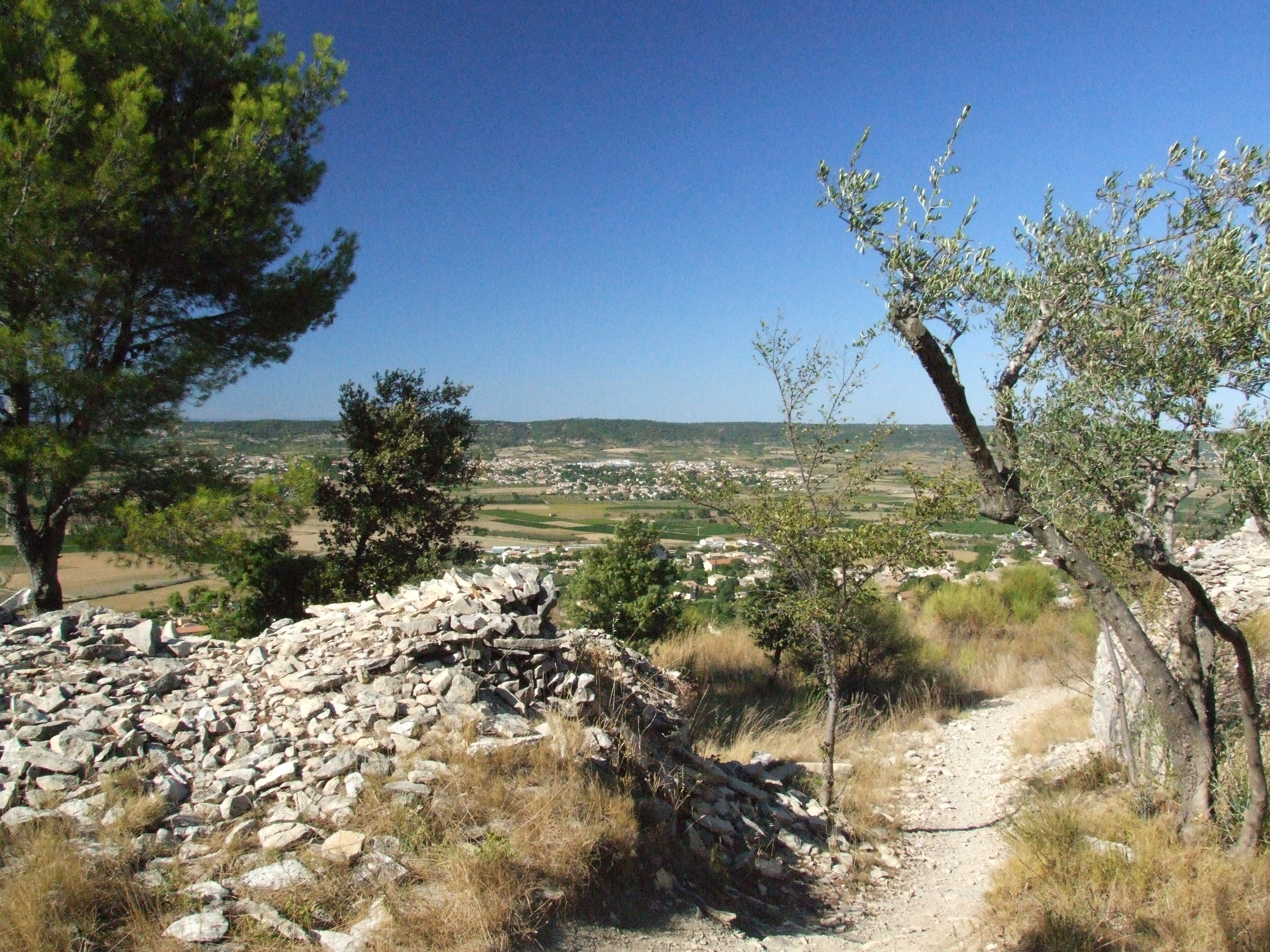 The village of Nages is dominated by the two Gaulish oppidums of Roque de Viou, and of Nages on the Roque de Viou hill to the north. The Oppidum de Roque de Viou dates from 700 bce and is the older of the two.